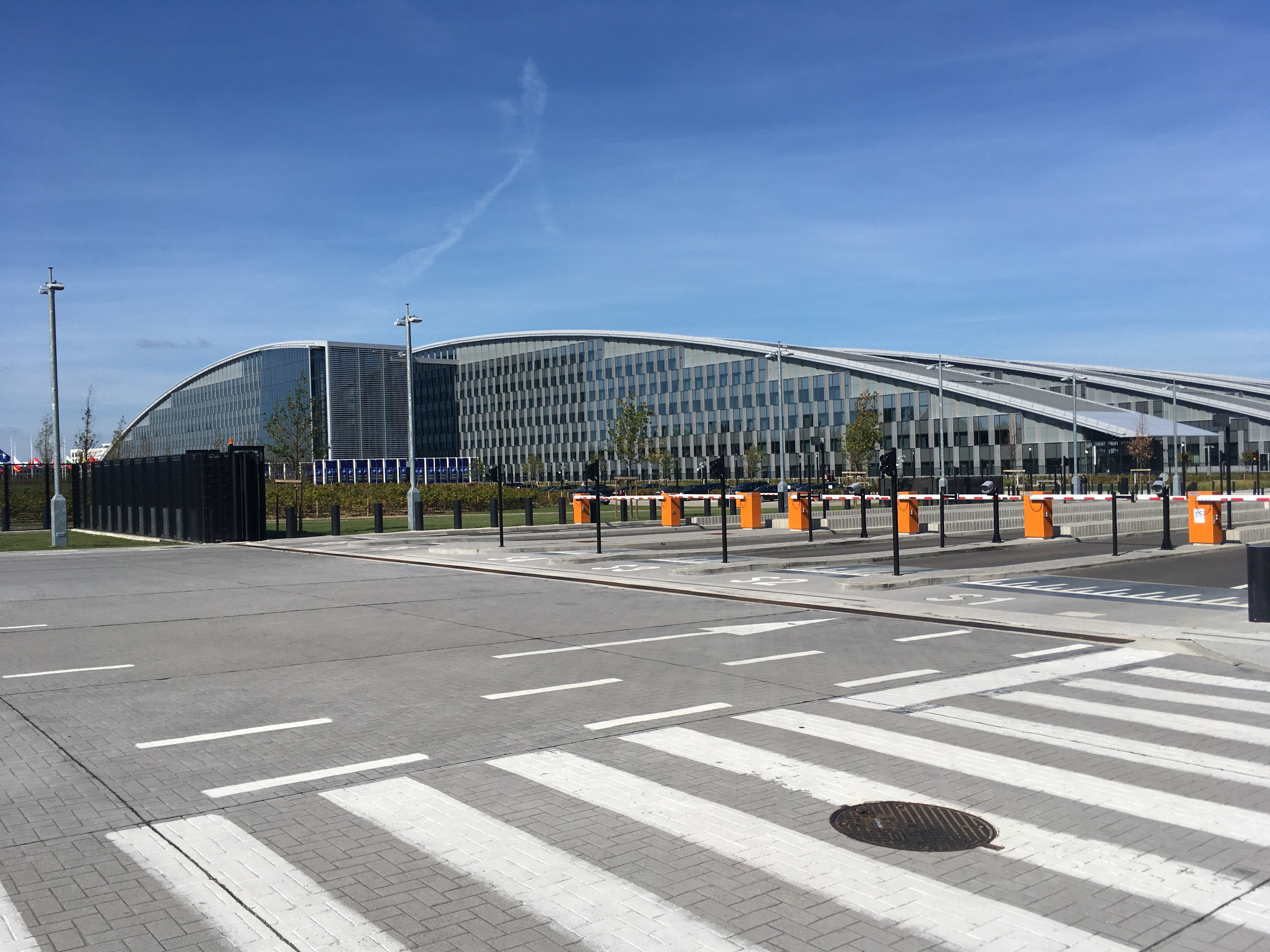 Current NATO HQ